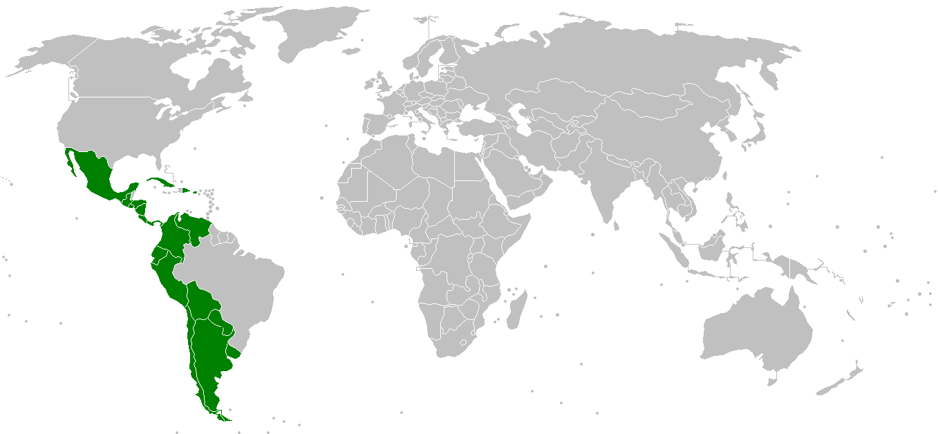 taken from Image:Hispanoamerica.jpg and changing format to png